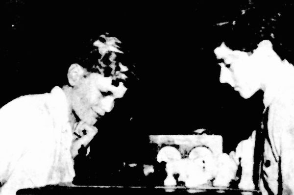 John Purdy (left) 1951 Junior Australian Chess Champion and his rival John Bailey play a friendly game